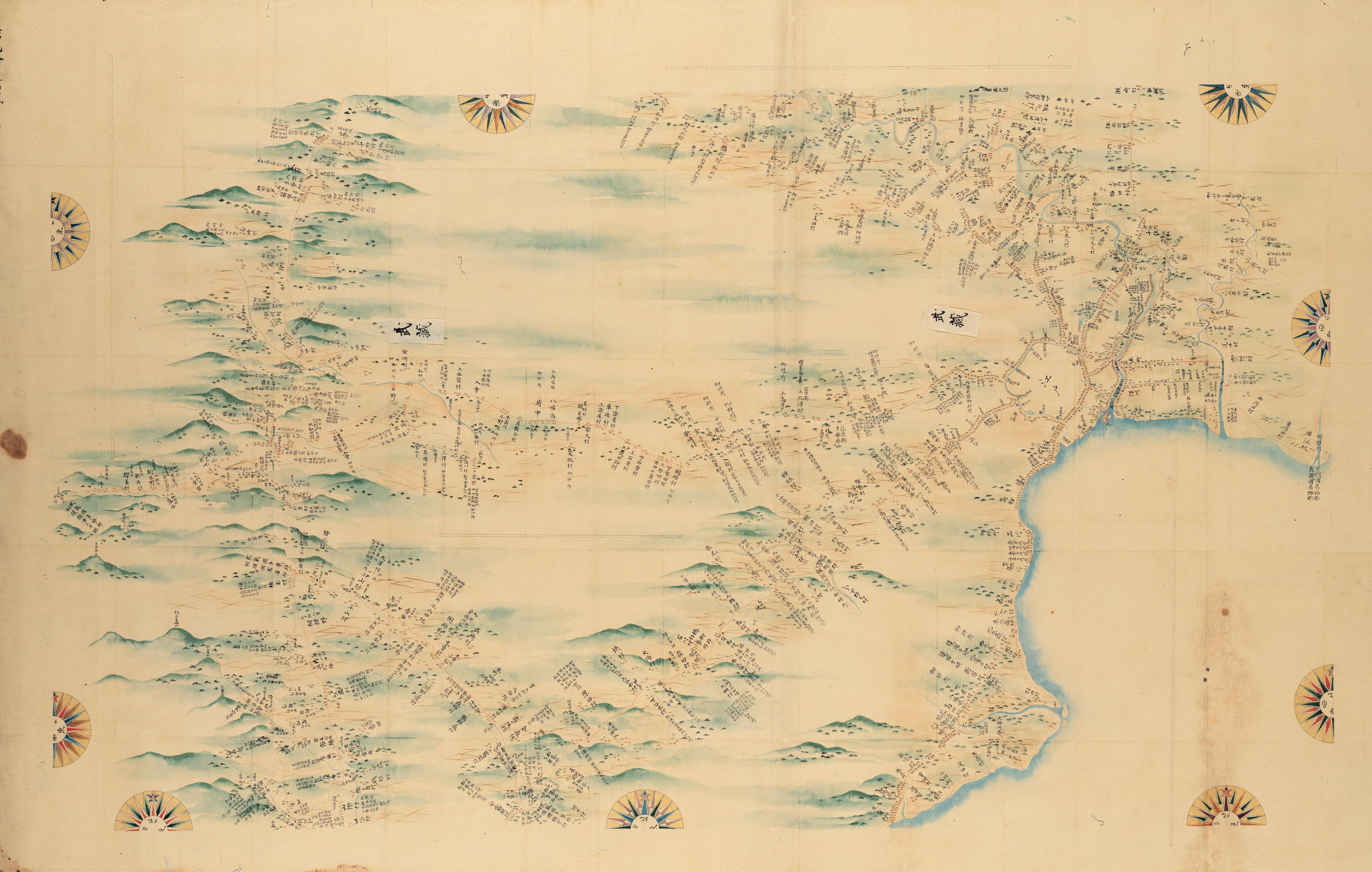 "Dai Nihon Enkai Yochi Zenzu" No.90 Musashi, Shimousa and Sagami (Musashi, Tonegawa-kō, Tokyo, Kobotoke, Shimousa, Sagami, and Tsuruma-mura)